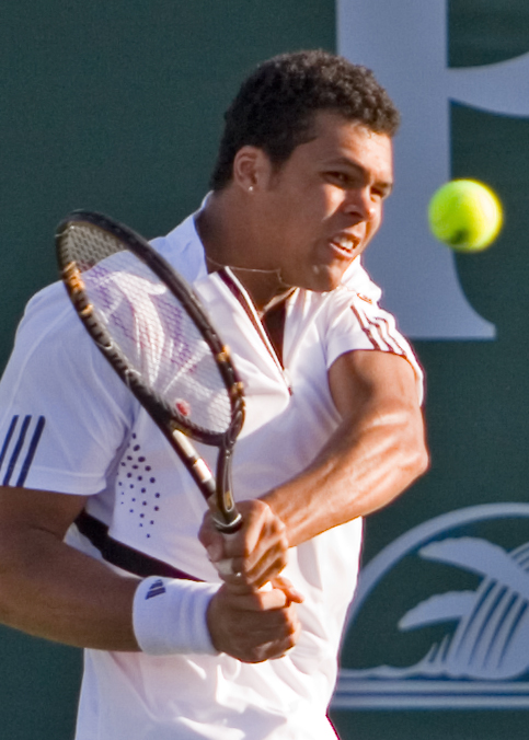 Jo-Wilfried Tsonga hits a backhand during his first round doubles loss at the 2008 Pacific Life Open. He and Sebastien Grosjean lost to Richard Gasquet and Robert Lindstedt 4-6, 6-2, (10-7)